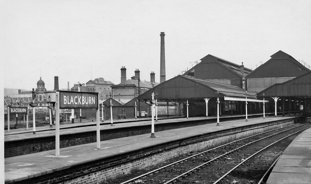 Blackburn Station. View NE, towards Burnley and Hellifield. Major ex-L&Y station, served by lines from Manchester and Bolton, also Wigan via Chorley, to Hellifield, and to Burnley and Colne (via Accrington or via Padiham). The Padiham Loop had been closed to passengers 12/57 (goods 2/11/64), from Chorley 4/1/60 (goods 25/1/65). The Ribble Valley line to Hellifield was closed to regular services on 10/9/62 (goods 1/9/69), although the route remained until later available for some freight and diverted passenger trains. In 1986 it was acquired by the Ribble Valley Railway and in 5/94 a passenger service began again between Blackburn and Clitheroe, and the intermediate stations have been restored). [Further relevant details are needed here].